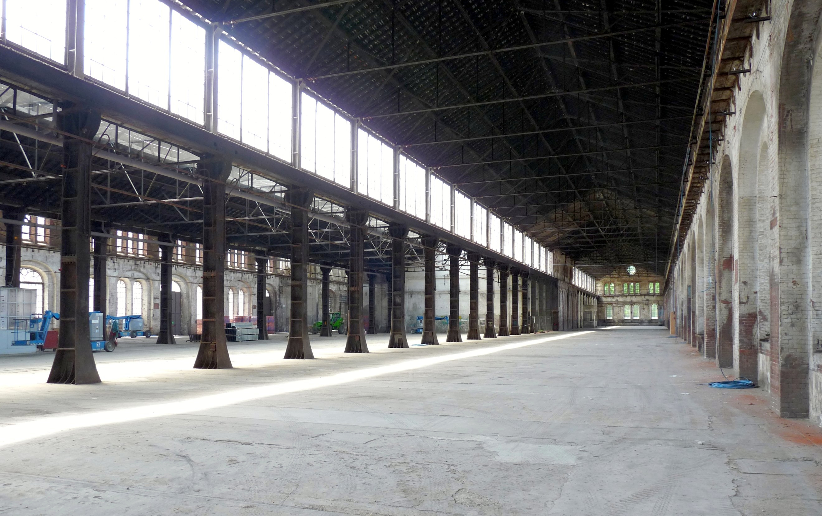 The OGR - Officine Grandi Riparazioni (Big Repair Shops) are one of the last vestiges of Turin's industrial past. Built between 1885 and 1895, they became the first engine of development of the San Paolo neighborhood. Stretching over an area of more than 190,000 square meters, the buildings were used to build and repair locomotives and carriages. The H-shaped complex is a work of great architectural and monumental impact. Inside two rows of cast iron pillars create a spectacular nave and aisle structure, a true "industry cathedral". Abandoned for many years, the OGR are now the object of an architectural and functional restoration which aims to transform the complex into a large exhibit centre.